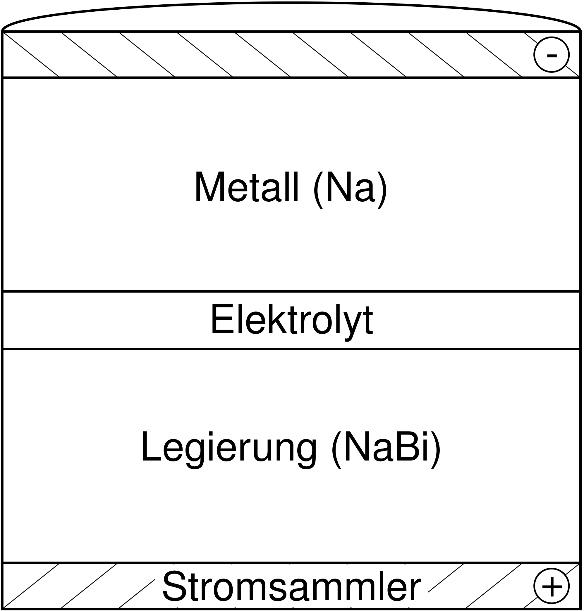 Liquid Metal batterie